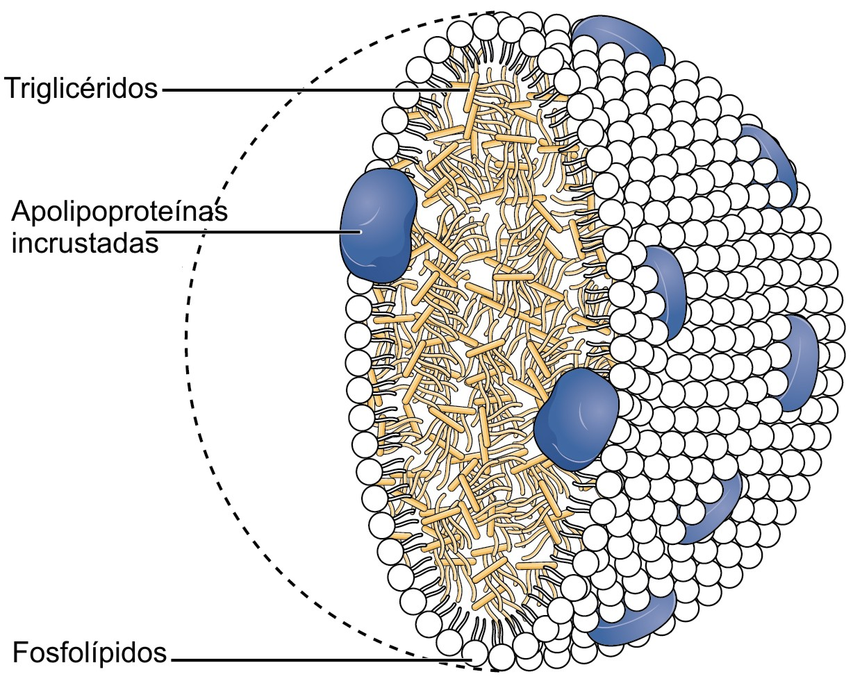 chylomicron structure translated to Galician